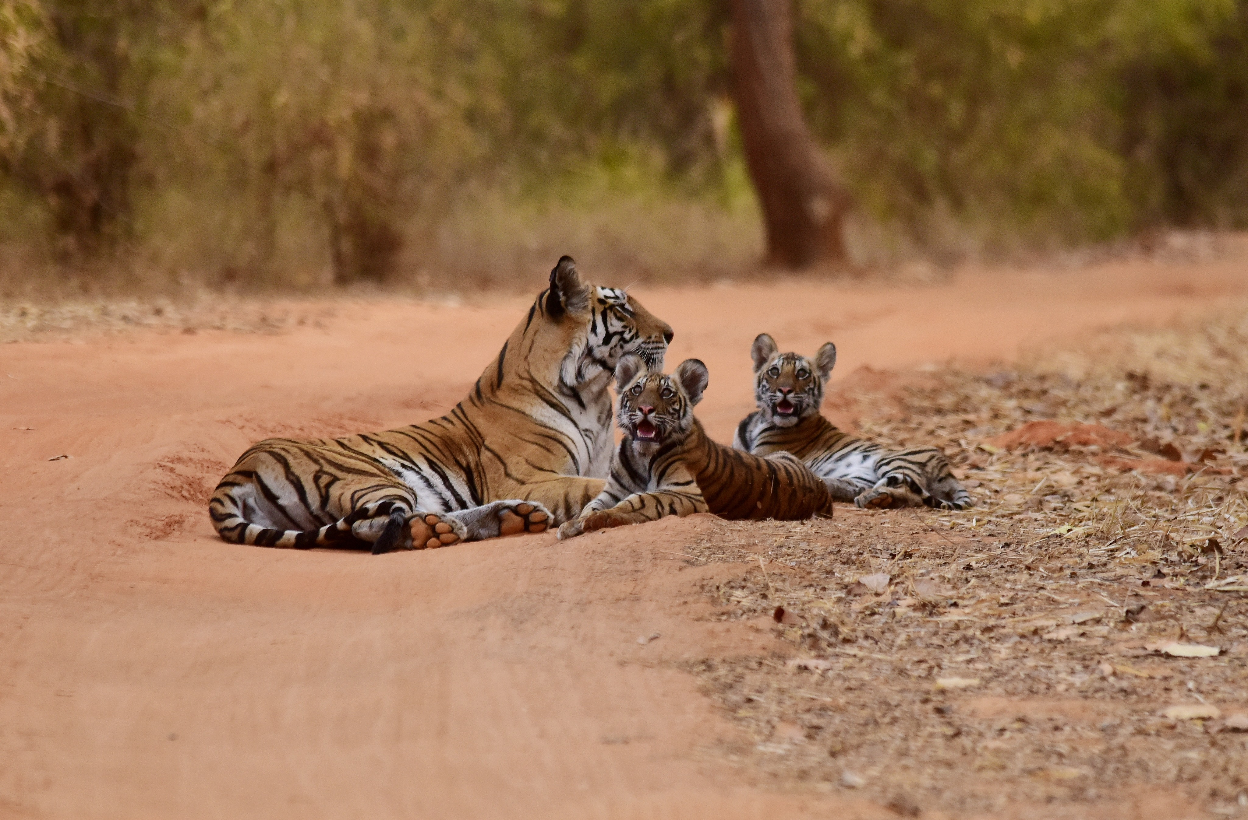 Bandhavgarh National Park, Tala, India